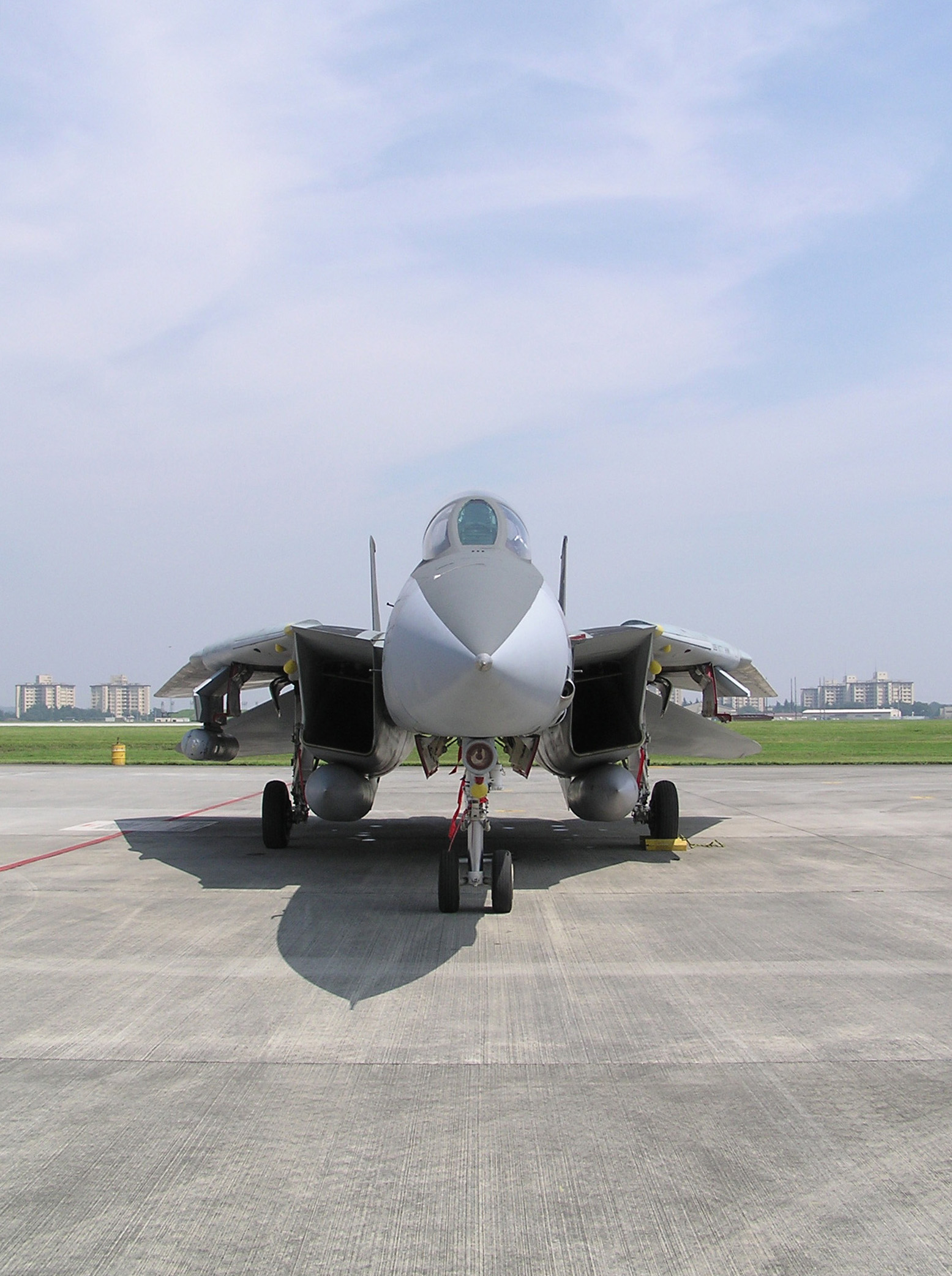 U.S. Navy Grumman F-14A Tomcat from Fighter Squadron VF-154 Black Knights, assigned to Carrier Air Wing 5 (CVW-5) aboard the aircraft carrier USS Kitty Hawk (CV-63) at Yokota Air Base, Tokyo, Japan. VF-154 was redesignated VFA-154 on 1 October 2003 and transitioned to the Boeing F/A-18F Super Hornet.